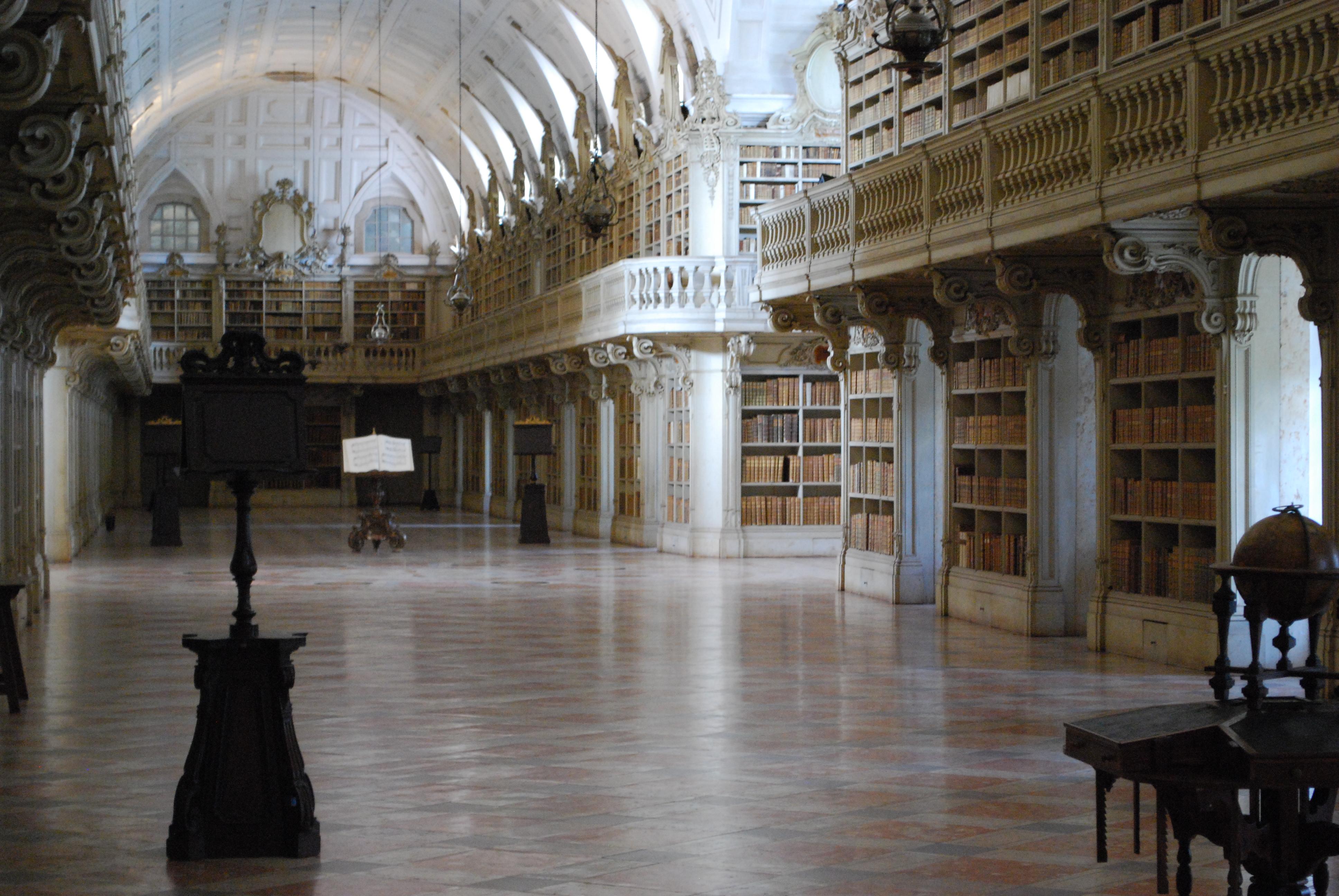 This file was uploaded for Wiki Loves Monuments in Portugal with the unique identifier 69940.